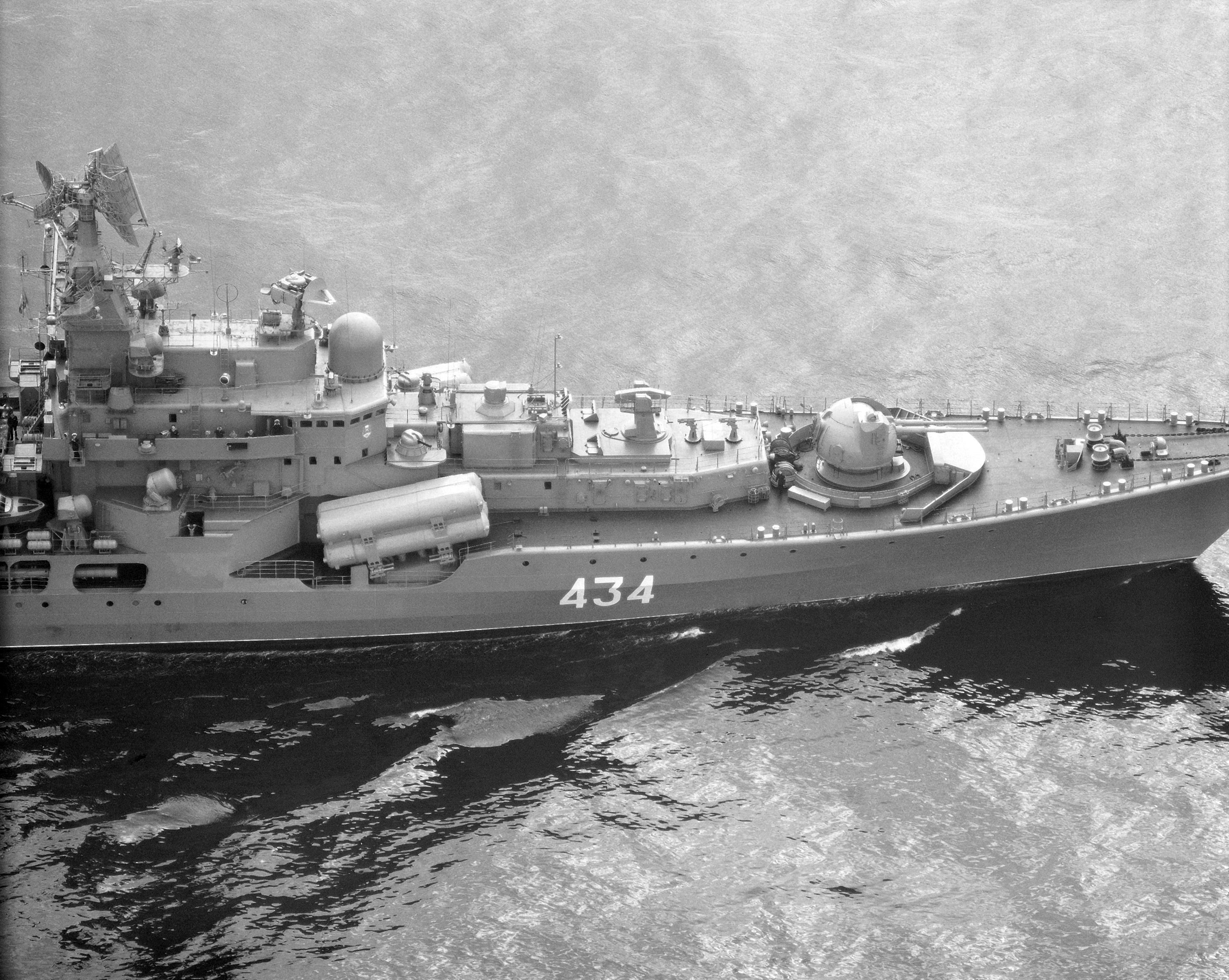 A starboard view of the forward half of the Soviet Project 956 "Sarych"(Sovremenny class) destroyer Otlichnny (434).